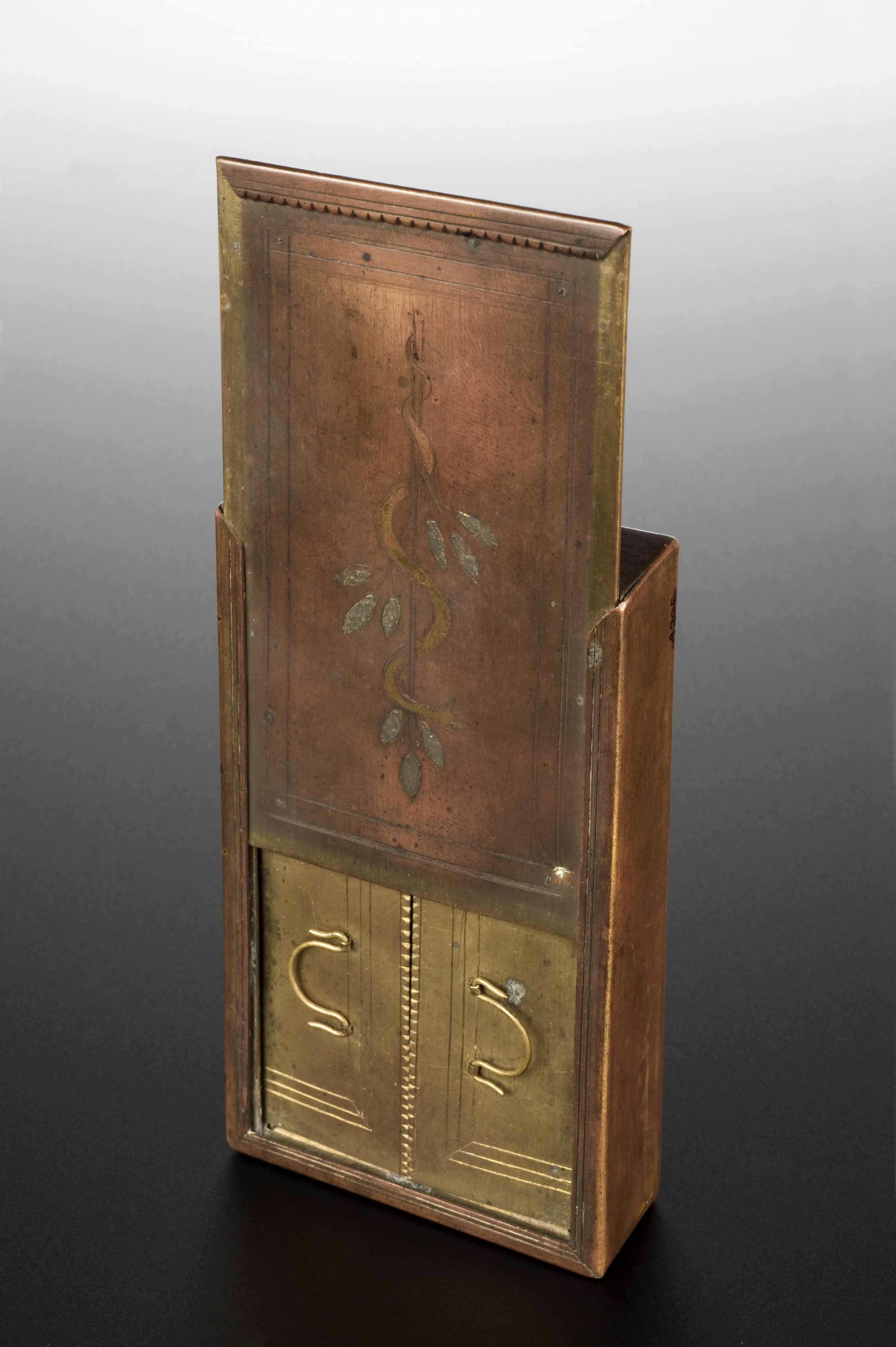 The brass medicine chest has four separate compartments which would each have contained a different medical treatment. On the lid, a rod of Asklepios has been engraved. A caduceus is a snake entwined around a rod or staff. This is a symbol of medicine and is associated with the Greek and Roman healing god, Asklepios. This is a copy of an original found at Pompeii in Italy. The original is at the Naples Museum in Italy. maker: Unknown maker Place made: Pompeii, Naples, Campania, Italy Wellcome Images Keywords: medicine chest; Pharmacy